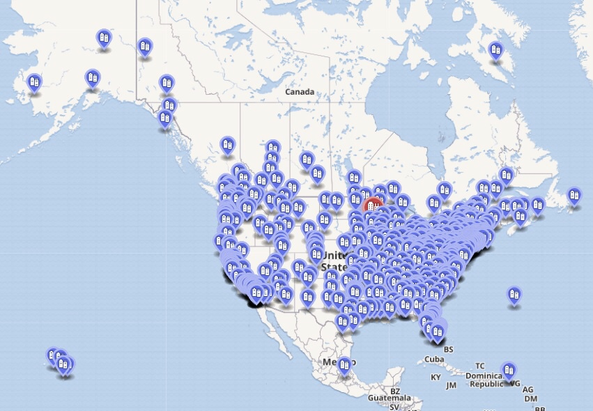 George Floyd Protests as of 8 JUN 2020. This is a screenshot of the dynamic map.